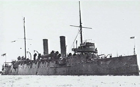 AWM caption : "1910. STARBOARD BOW VIEW OF THE SECOND CLASS PROTECTED CRUISER HMS CAMBRIAN, THE LAST FLAGSHIP OF THE AUSTRALIA STATION. NOTE THE 6 INCH GUN ON HER FORECASTLE AND THE 4.7 INCH GUNS TRAINED ON THE STARBOARD BEAM."